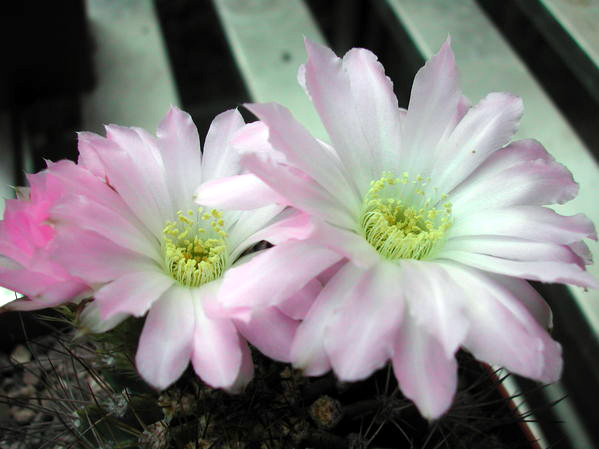 Acanthocalycium spiniflorum